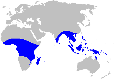 Plant family Musaceae distribution map